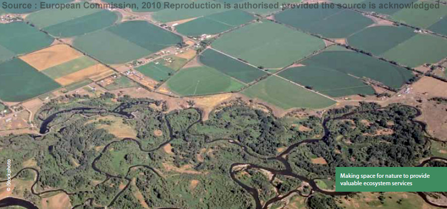 Illustration used in 2010 by the European Commission in its plate about the development of an EU strategy for a Green infrastructure figures prominently in the EU’s new post 2010 biodiversity policy. (This is because a Green infrastructure is viewed as being one of the main tools to tackle threats on biodiversity resulting from habitat fragmentation, land use change and loss of habitats) (Reproduction is authorised provided the source is acknowledged)